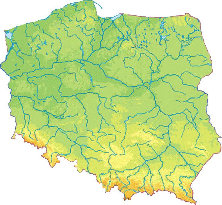 Image for use by the WikiProject "Polish cities and communities" on the Polish Wikipedia.